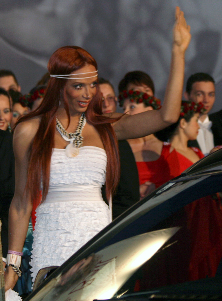 Lorielle London at the Life Ball 2009, Rathaus, Vienna.